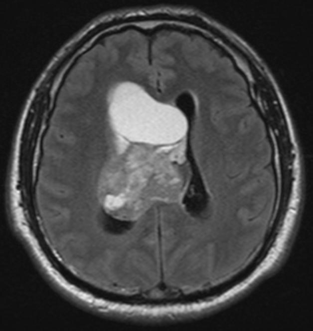 This 36 year-old male patient presented with a headache. This axial FLAIR (fluid-attenuated inversion recovery) MR image shows a right ventricular mixed solid/cystic mass limited by the septum pellucidum and ventricular walls. The solid portions of the tumour showed heterogeneous enhancement on post-gadolinium sequences. Based on these imaging characteristics a provisional diagnosis of central neurocytoma was made. The tumour was resected the next day - histology and immunocytochemistry confirmed the diagnosis.